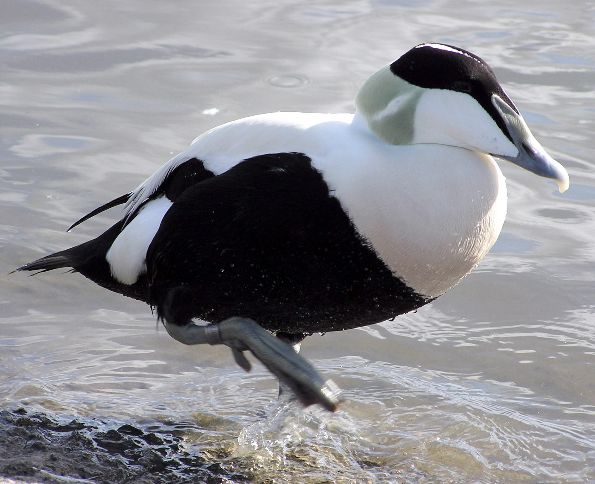 Common Eider duck Somateria mollissima at Bristol Zoo, Bristol, England. Photographed by Adrian Pingstone in February 2005 and released to the public domain.